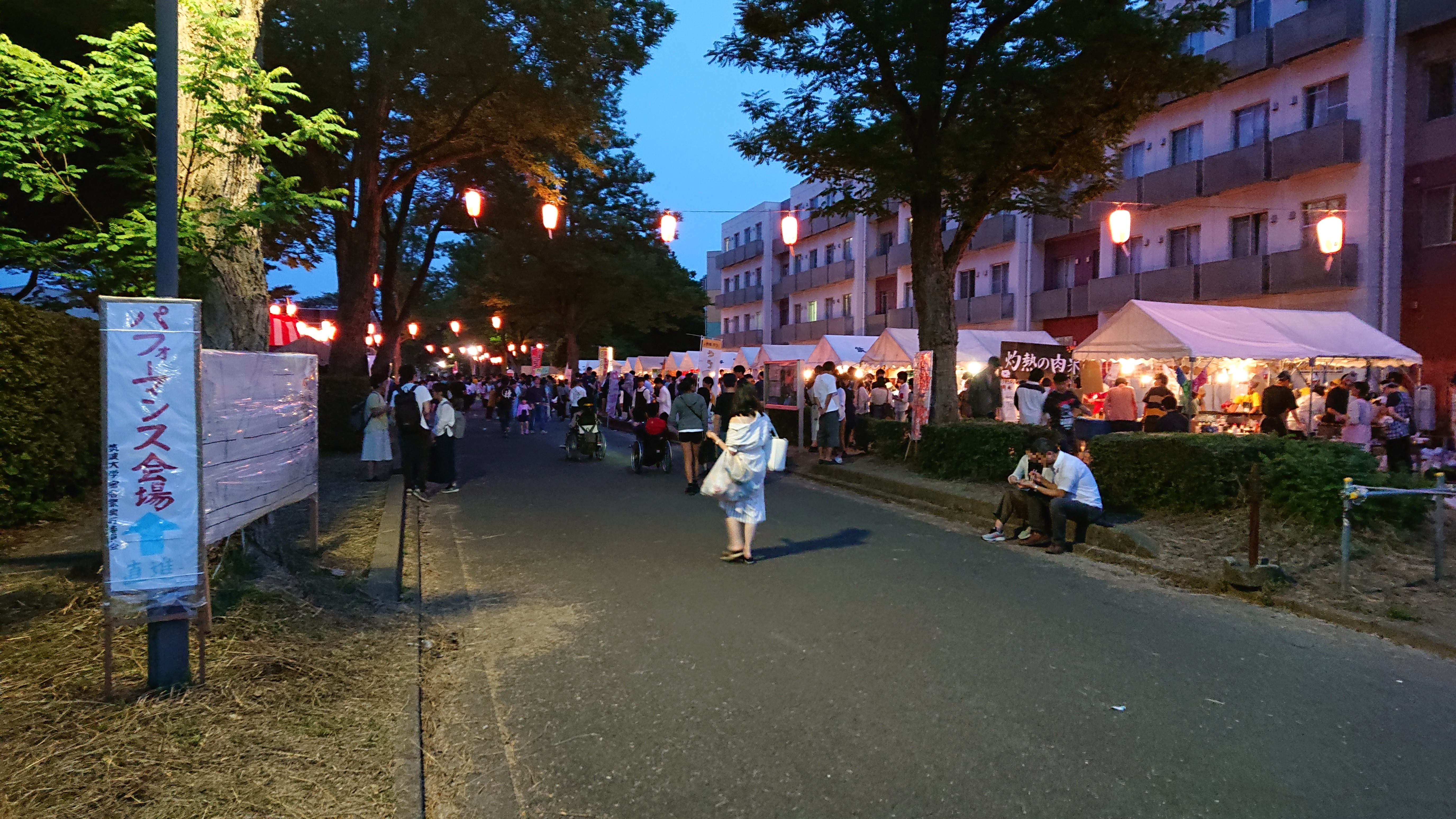 This is one scene in the University of Tsukuba's residence festival "Yadokari-sai".